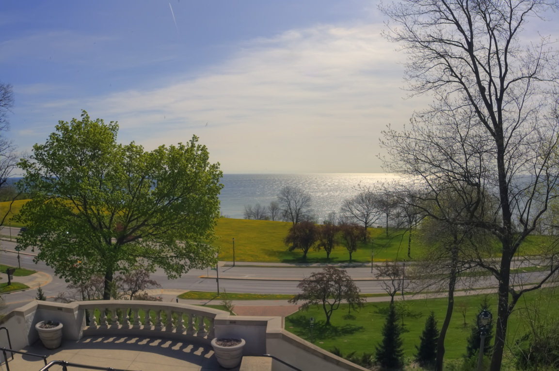 View of Lake Michigan from the grand staircase in Lake Park, Milwaukee, Wisconsin